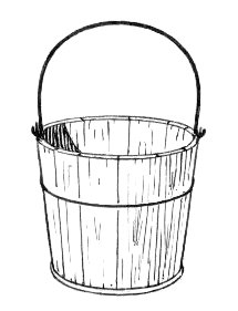 line art drawing